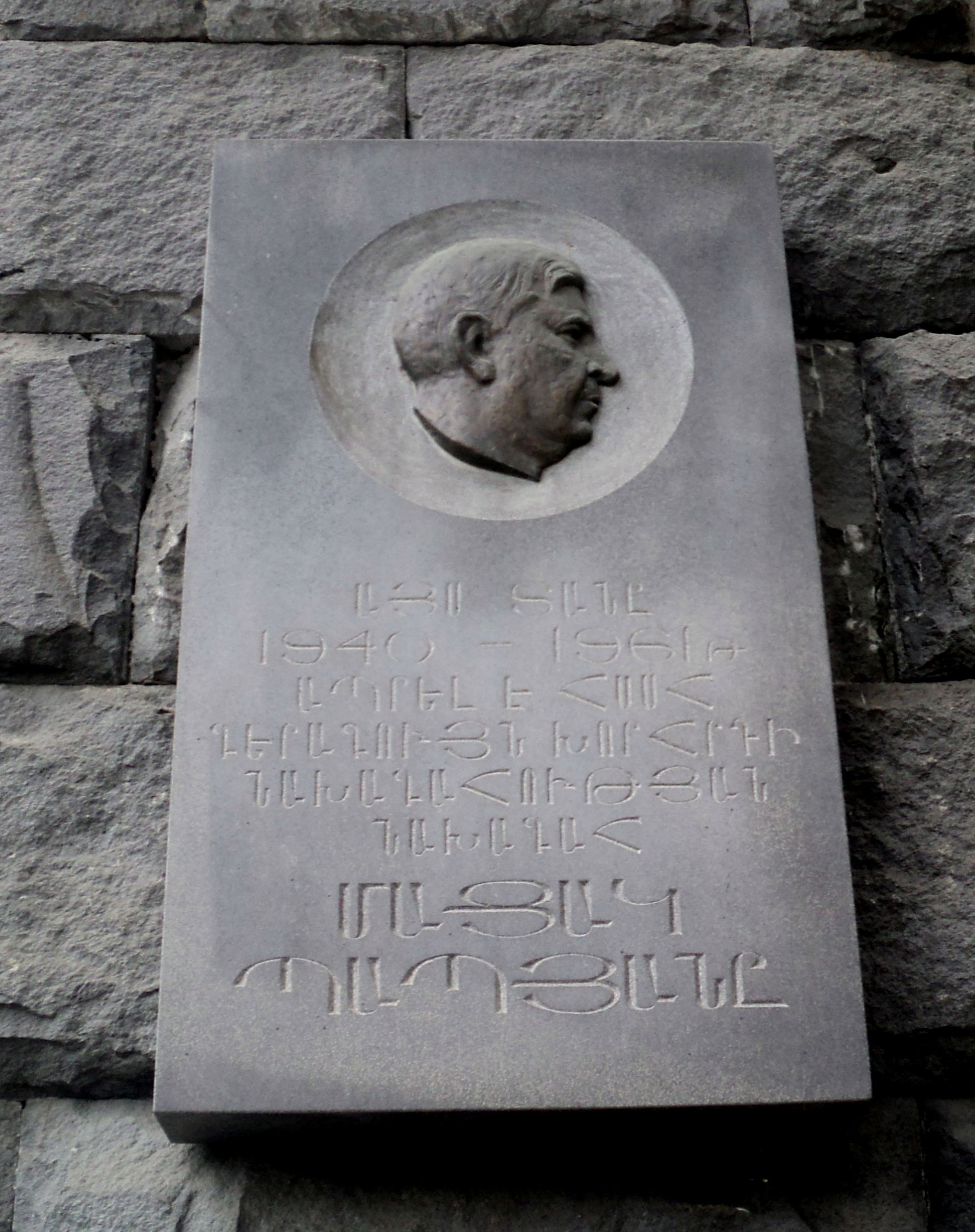 Matsak Papyan's Plaque